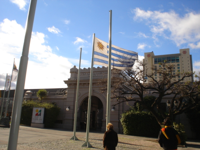 Entrance of Punta Carretas Shopping